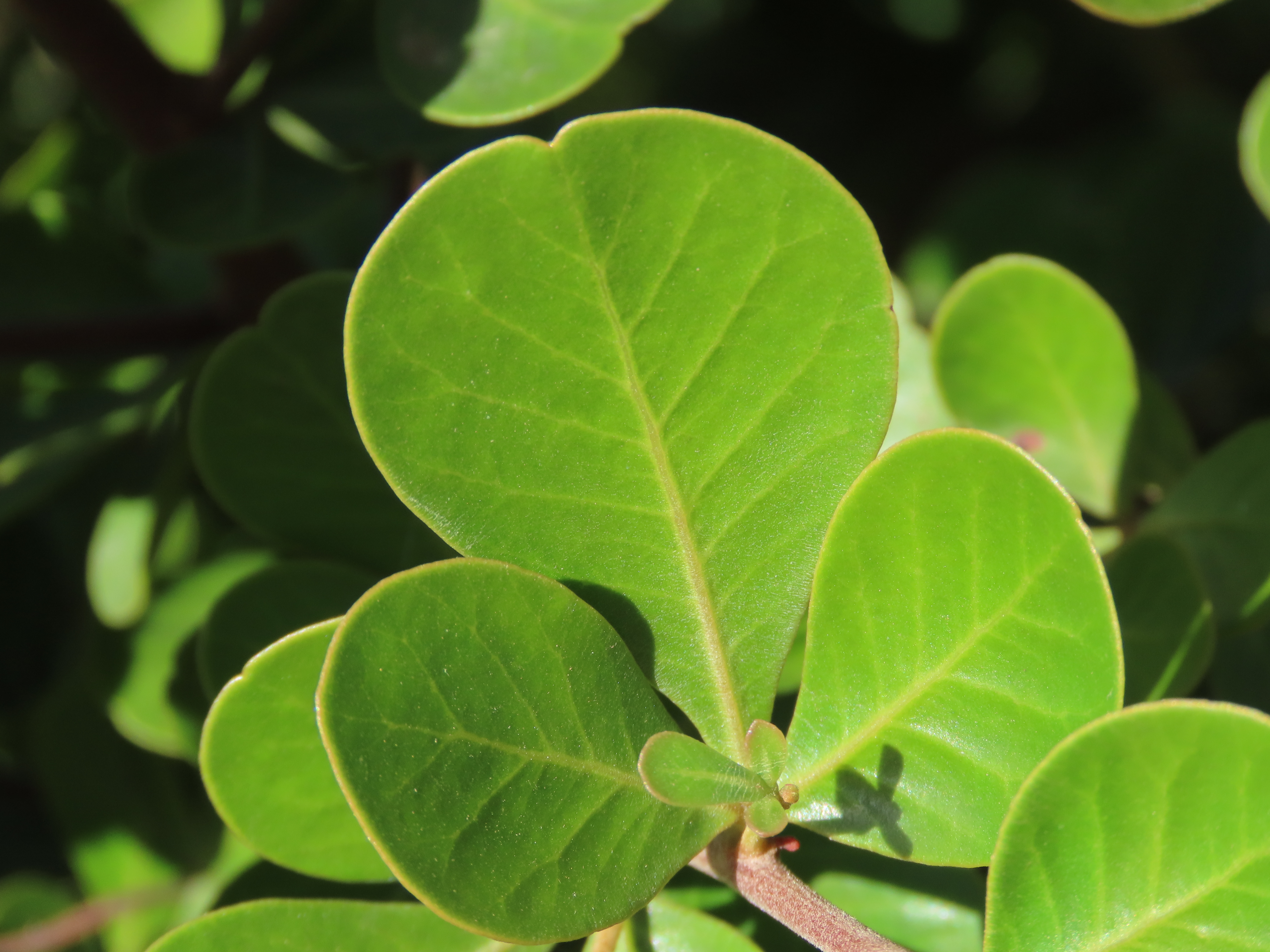 Retuse obtuse leaf of Searsia glauca